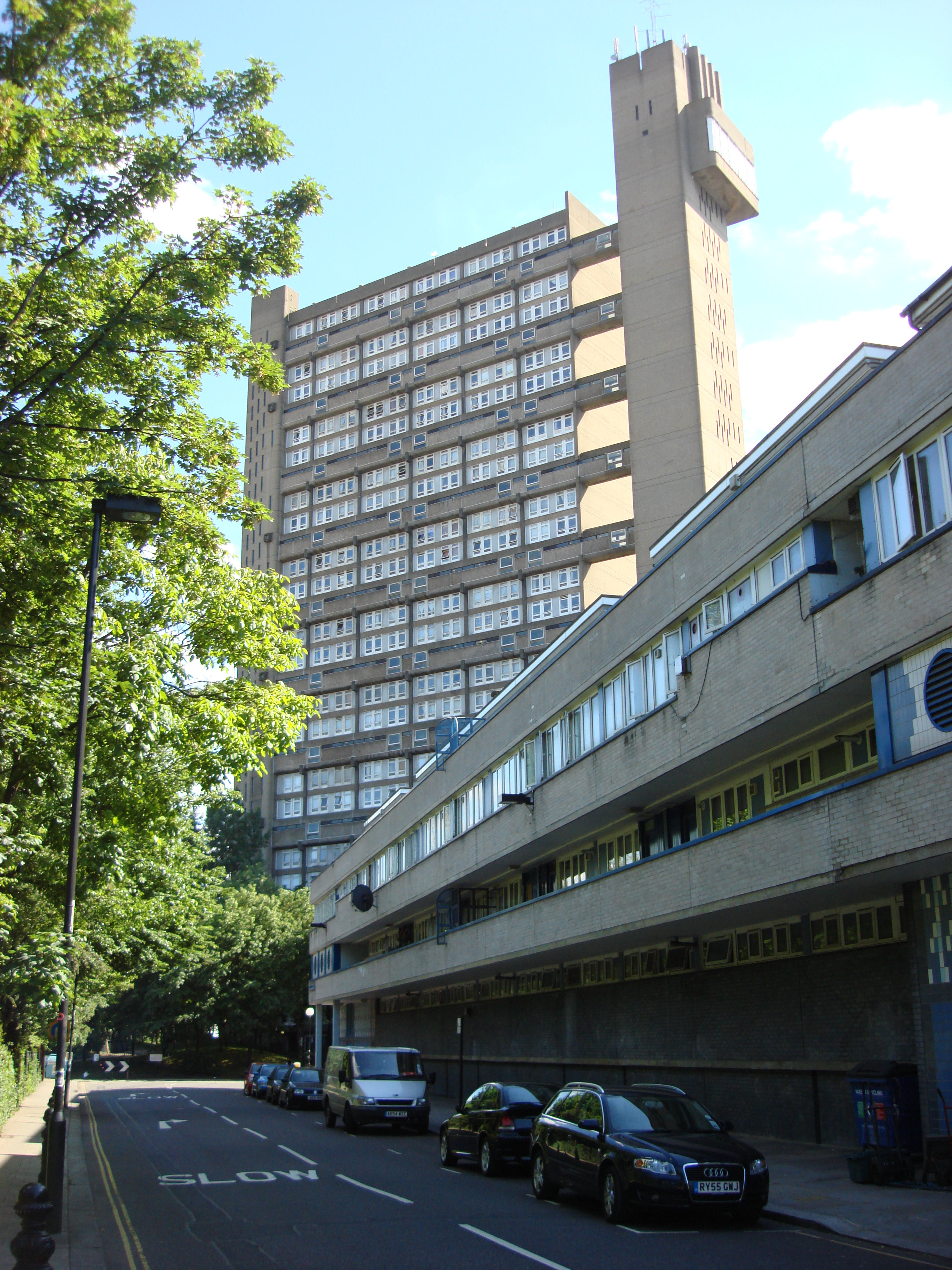 Trellick Tower by Ernö Goldfinger, from Kensal Road. An example of Brutalist architecture. Category:Grade II* listed buildings Category:Ernő Goldfinger buildings